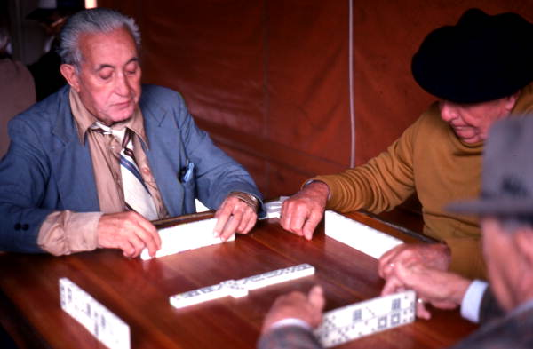 Local call number: FS8034A Title: Cuban American men playing dominoes in Little Havana: Miami, Florida Date: ca. 1975 Accompanying note: "Hispanic traditions are visible everywhere in 'Little Havana,' where Latin folklife is a wonderful asset to commerce and culture. Dominoes is a game that has great popularity throughout Latin America. In Miami the game is a favorite of the Cuban community. The game of dominoes is traditionally played by men, and true to tradition, in 'Domino Park' one will not see women participating. As with many other forms of folklore, this game is gender specific. Along Eighth Street we stop at 'Domino Park' where men play this traditional game, so popular in Cuba and Latin America, with ivory tiles handed down from father to son. At any hour of the day or night one may watch the lively action and animated debates of the domino games." Physical descrip: 1 slide - col. Series Title: Folklife Collection Repository: State Library and Archives of Florida, 500 S. Bronough St., Tallahassee, FL 32399-0250 USA. Contact: 850.245.6700. Persistent URL